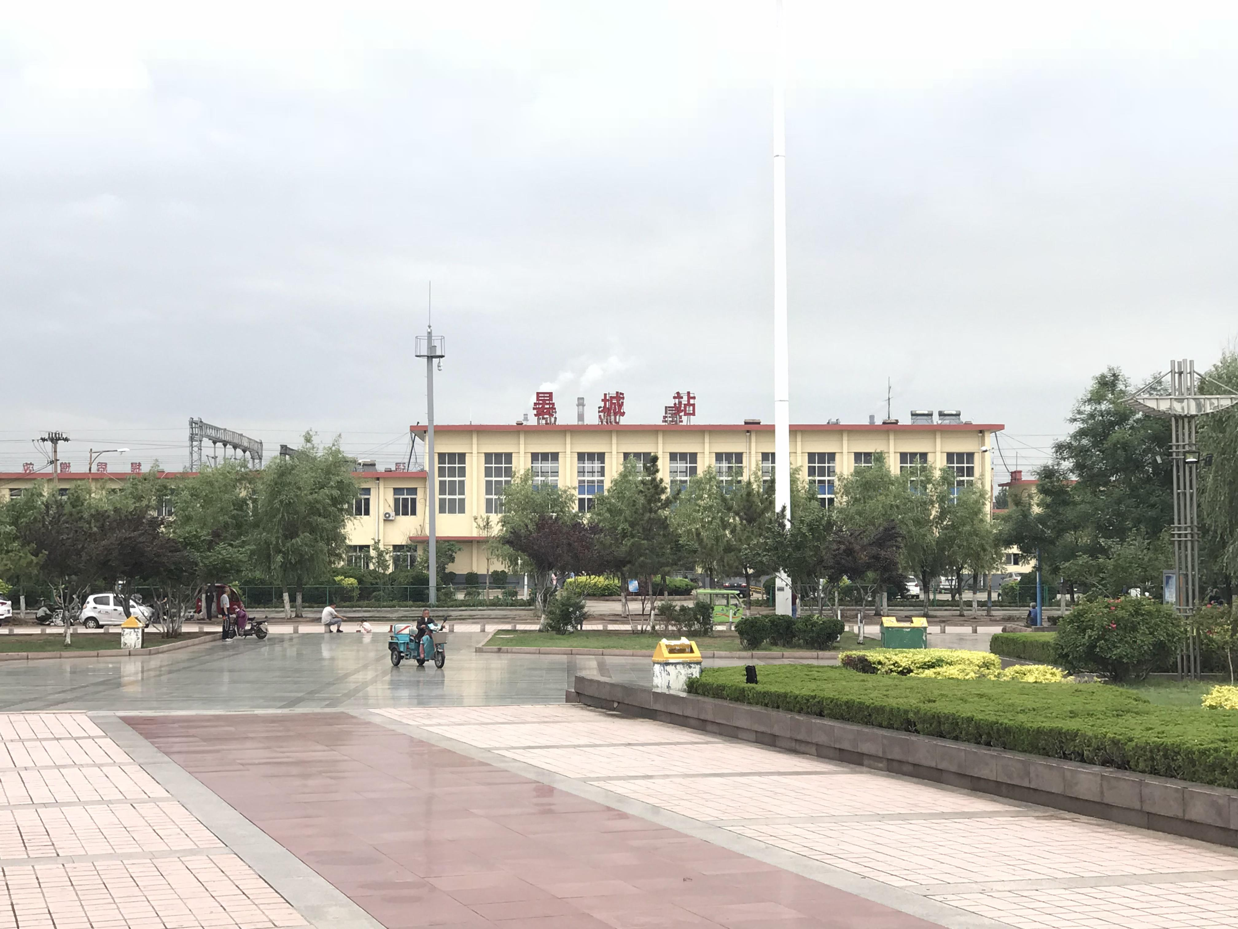 中文（中国大陆）: Yancheng Railway Station at Yancheng Subdistrict, Qihe, Shandong